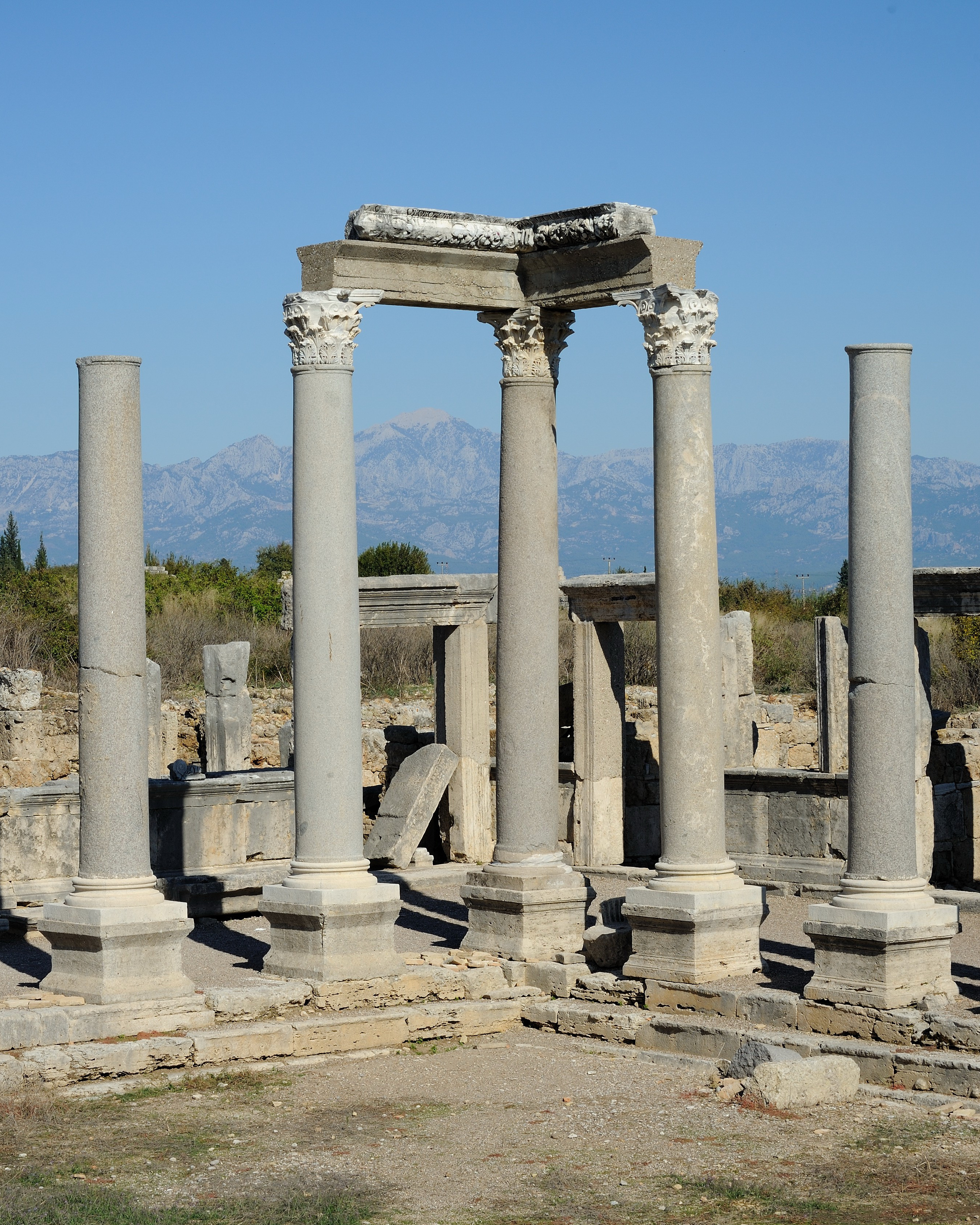 Perga (Greek: Πέργη Perge, Turkish: Perge) was an ancient Greek city in Anatolia and the capital of Pamphylia, now in Antalya province on the southwestern Mediterranean coast of Turkey.